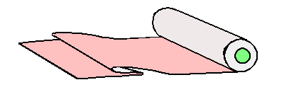 Tanmono from which Kimono is made.